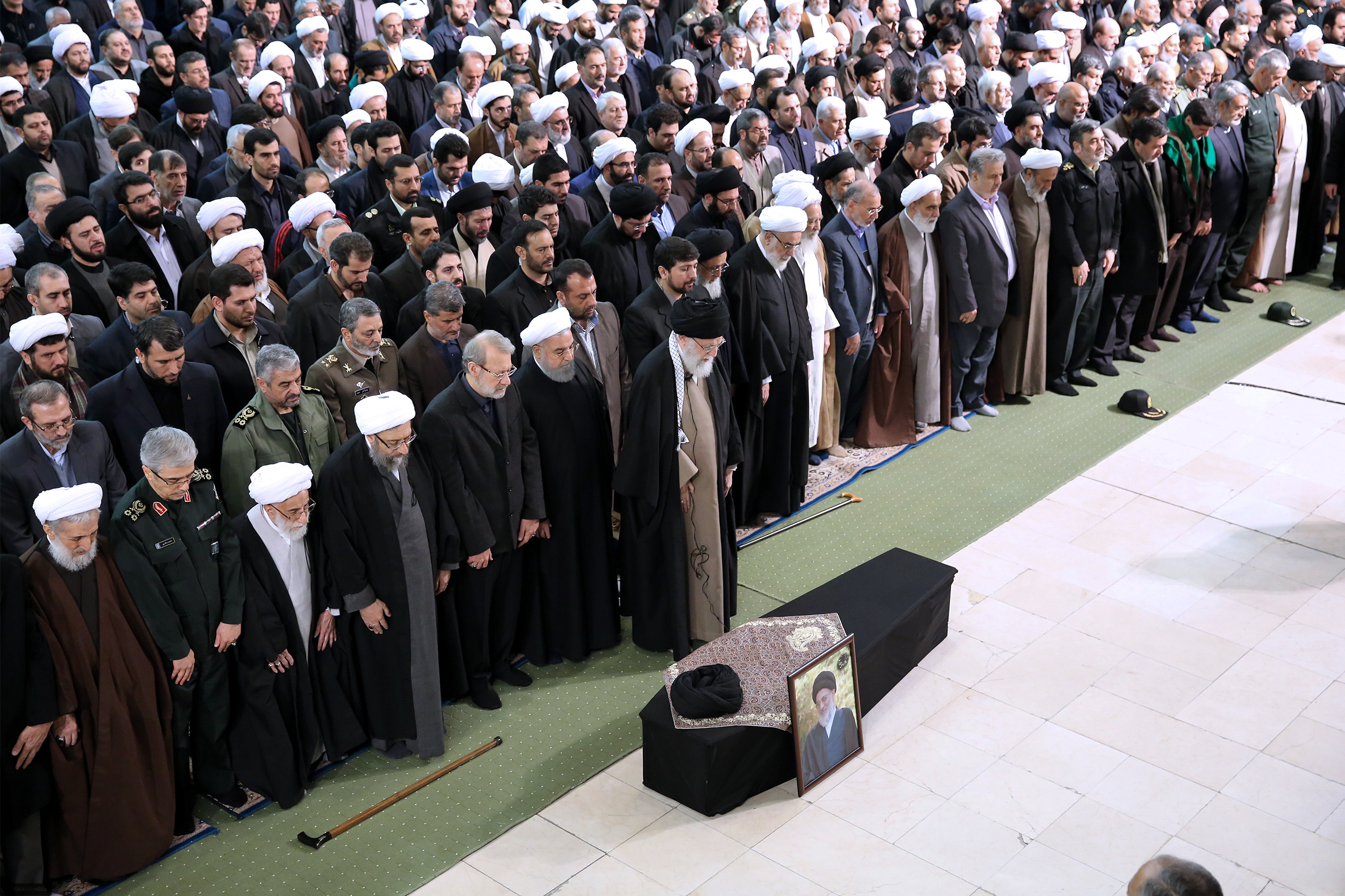 Ali Khamenei Praying for Ayatollah Mahmoud Hashemi Shahroudi- 26 Dec 2018